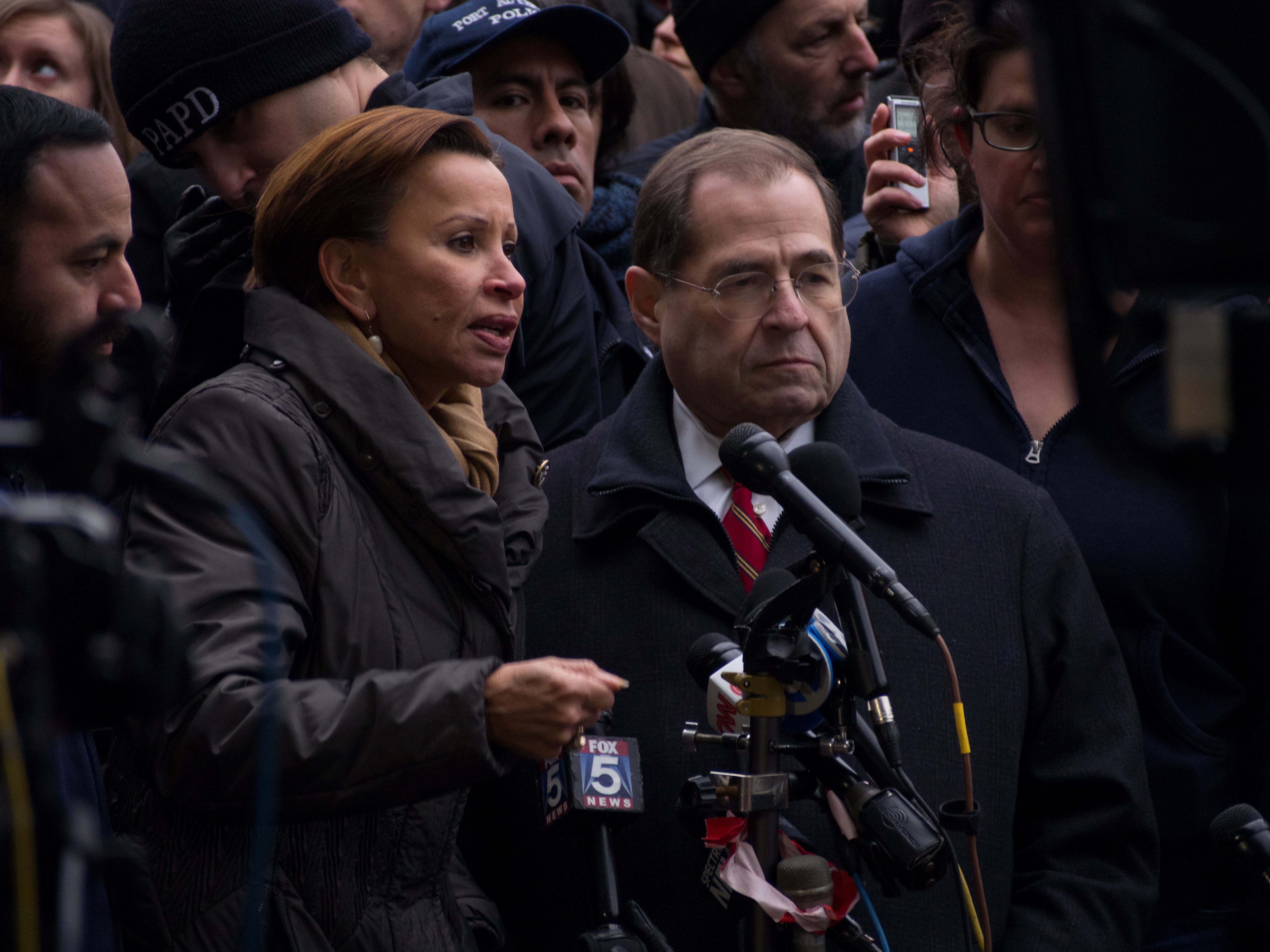 Nydia Velazquez and Jerrold (Jerry) Nadler giving a press conference. Protest at John F. Kennedy International Airport (JFK), Terminal 4, in New York City, against Donald Trump's executive order signed in January 2017 banning citizens of seven countries from traveling to the United States (the executive order is also known as "Protecting the Nation from Foreign Terrorist Entry into the United States").